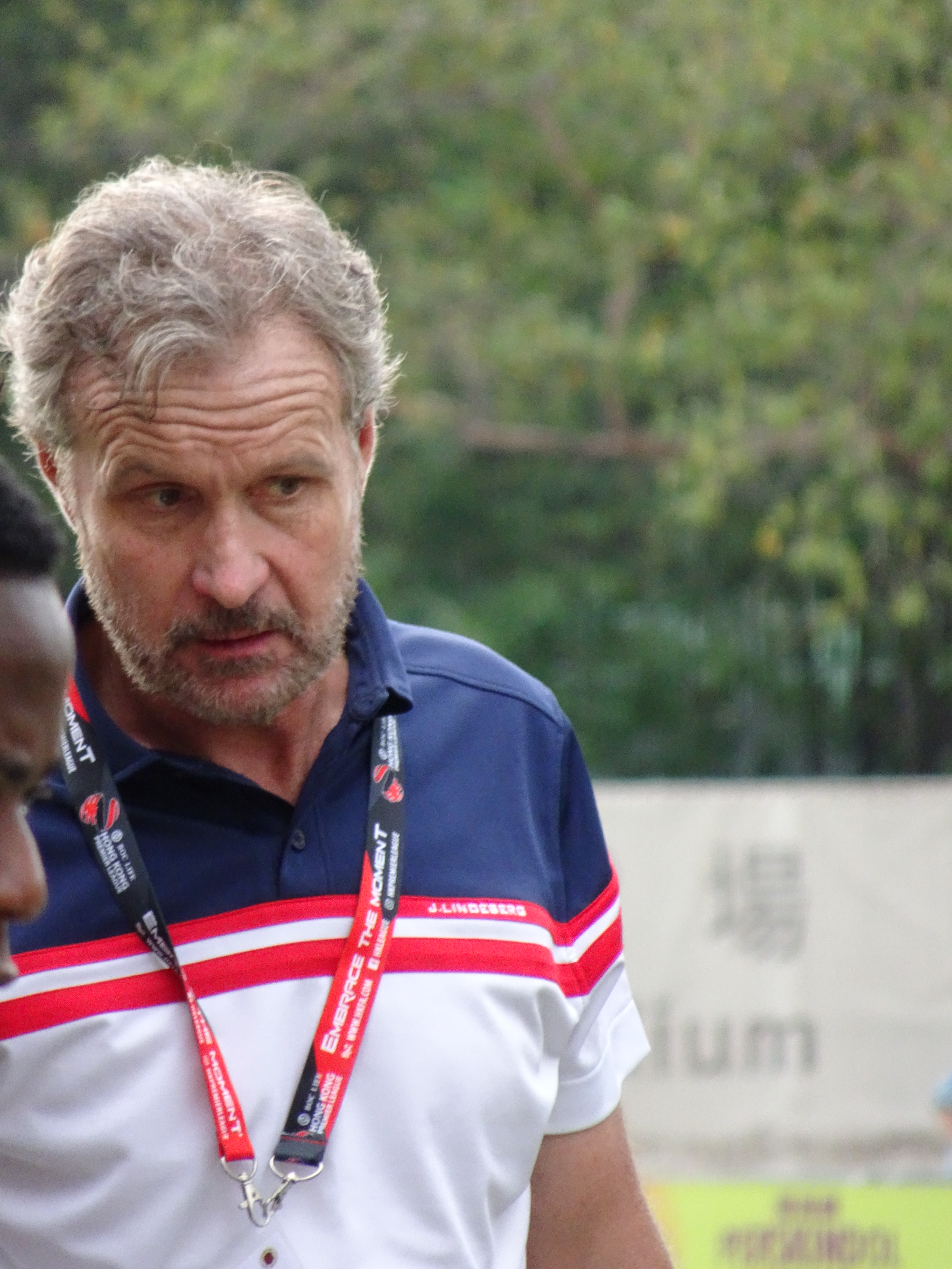 Kevin Bond (3 May 2017, Sapling Cup, Tai Po vs Pegasus, Mong Kok Stadium) 中文（香港）: 奇雲邦特 (3 May 2017, 菁英盃決賽, 大埔 vs 飛馬, 旺角大球場)